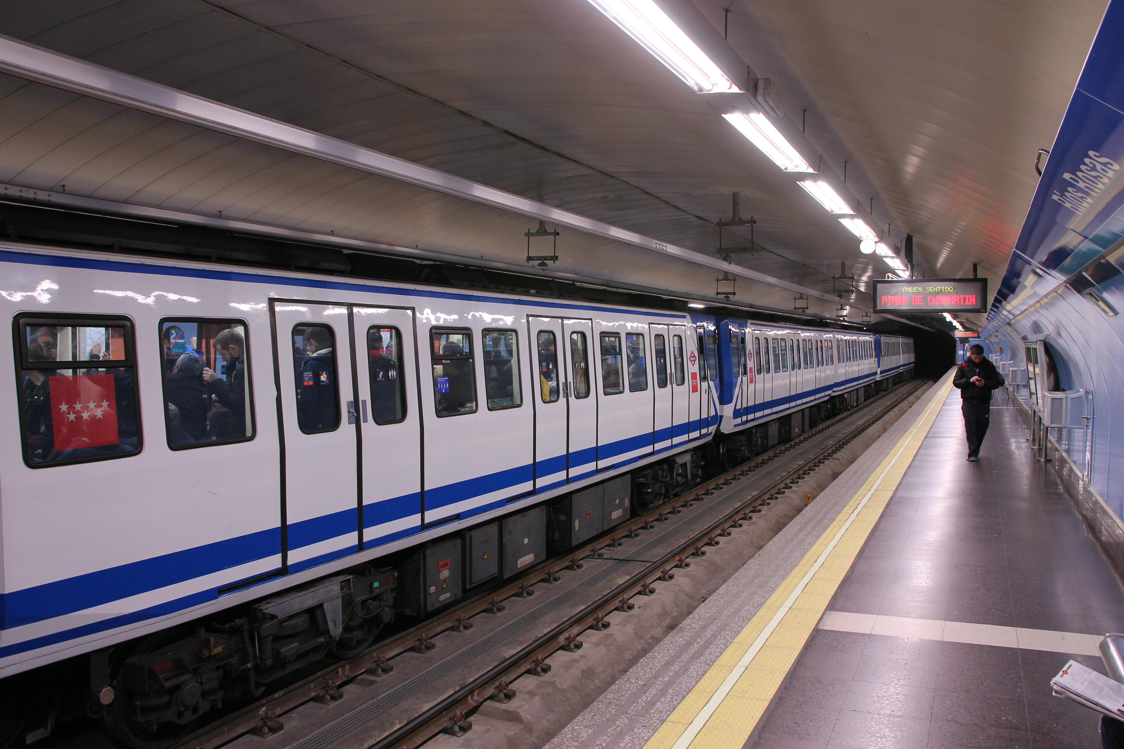 Estación de Ríos Rosas